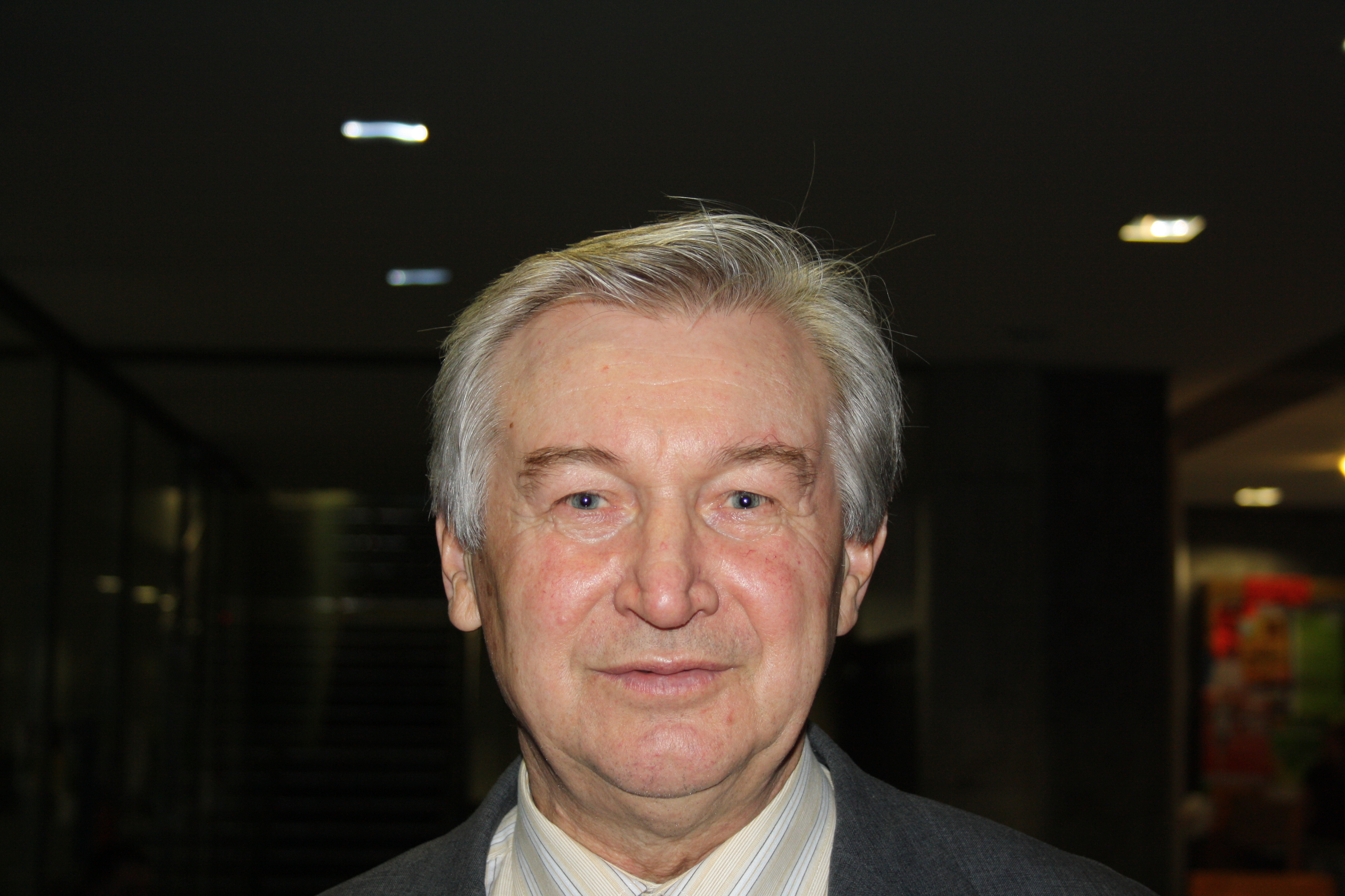 Czech professor of informatics Prof. RNDr. Milan Mišovič CSc. at Brno MZLU.